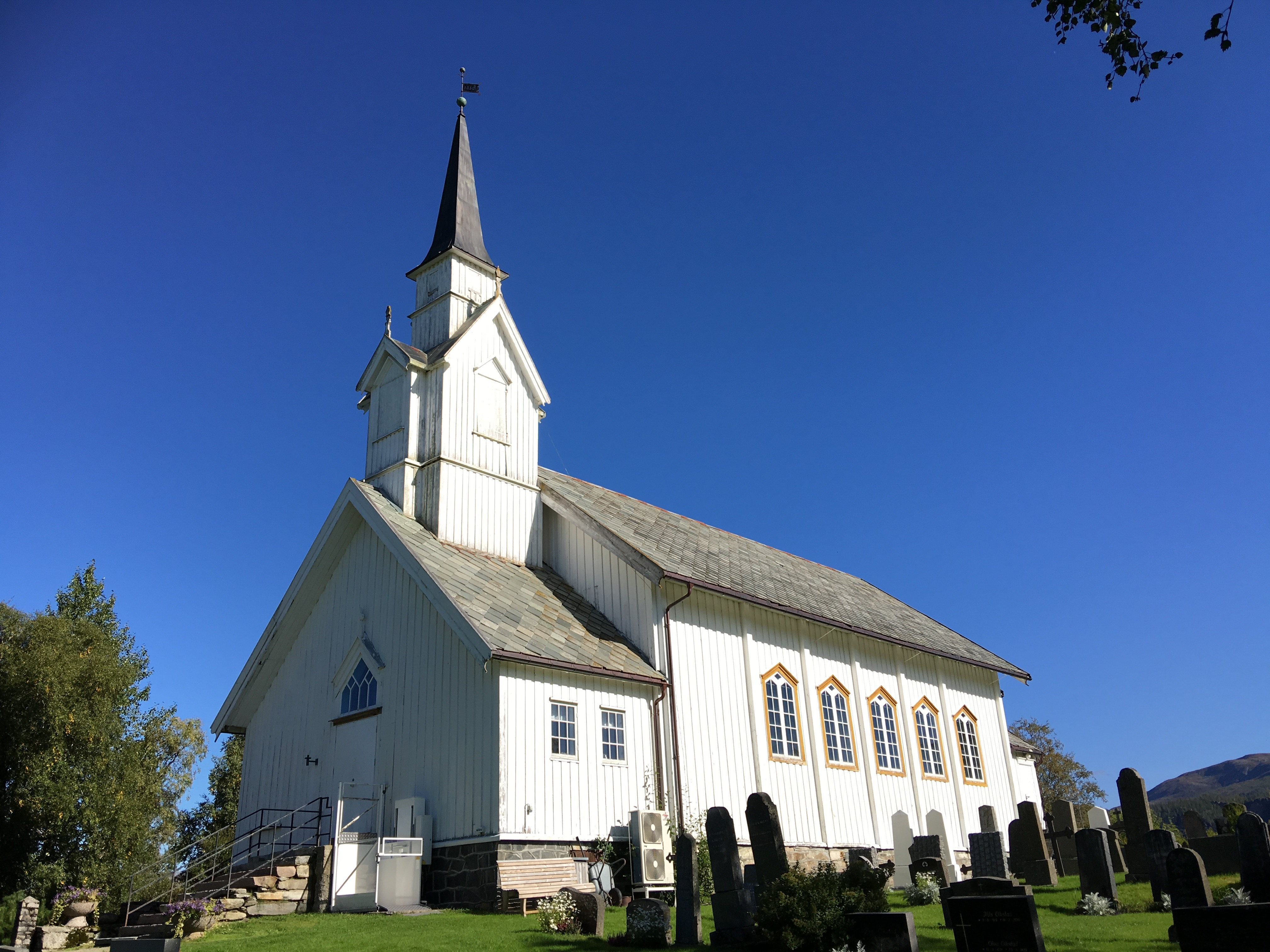 Høylandet Church from 1860 at Romstad in Høylandet Municipality in Nord-Trøndelag County, Norway in September 2016